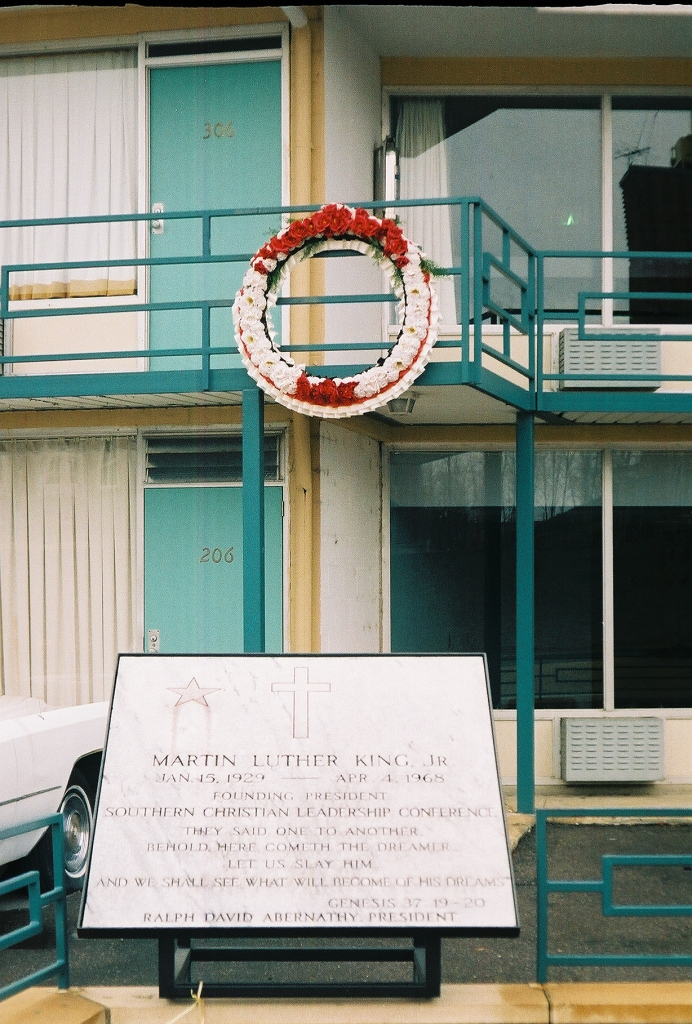 National Civil Rights Museum in Memphis, Tennessee